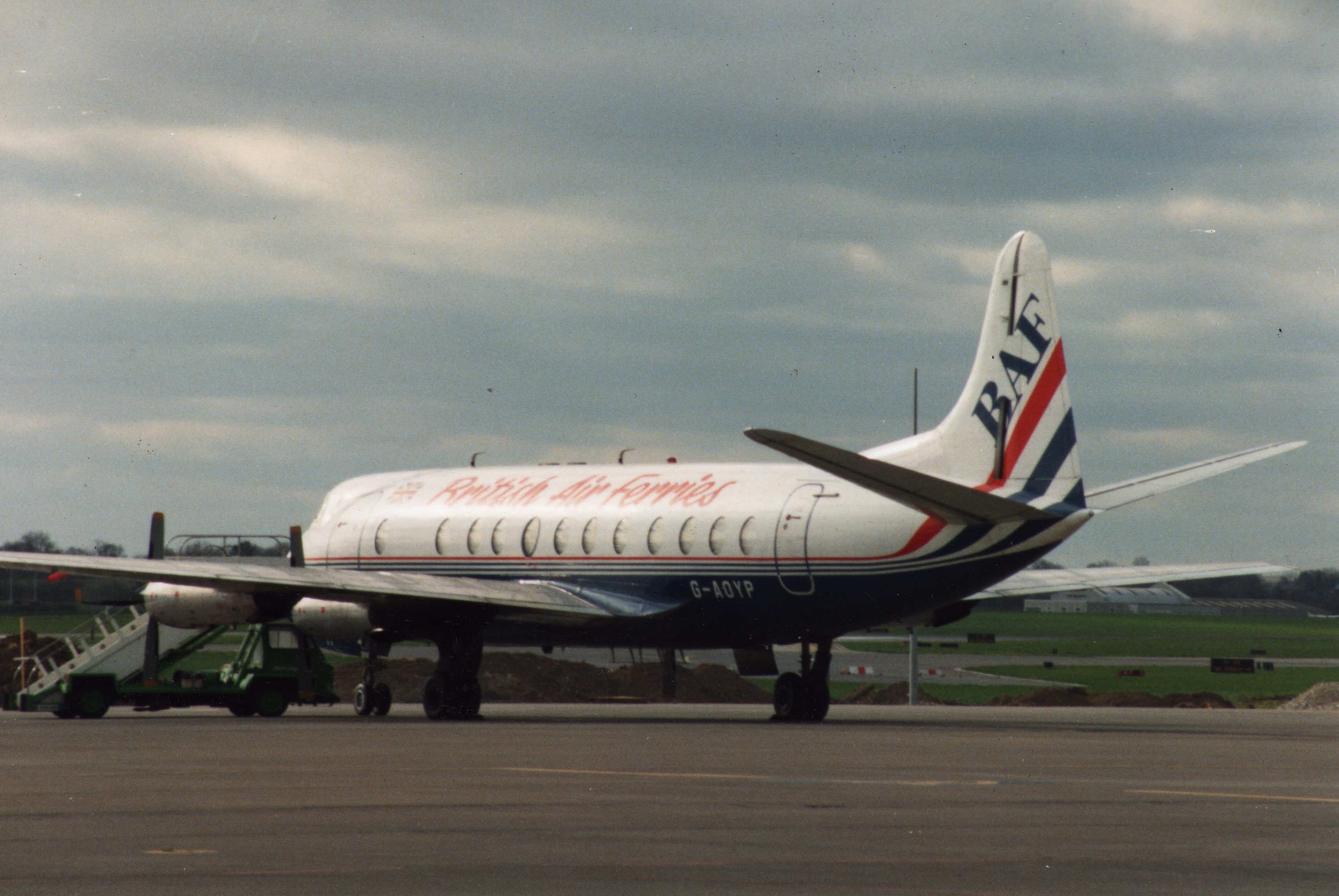 British Air Ferries (G-AOYP) Vickers Viscount aircraft, Dublin Airport, Dublin, Republic of Ireland, February 1993